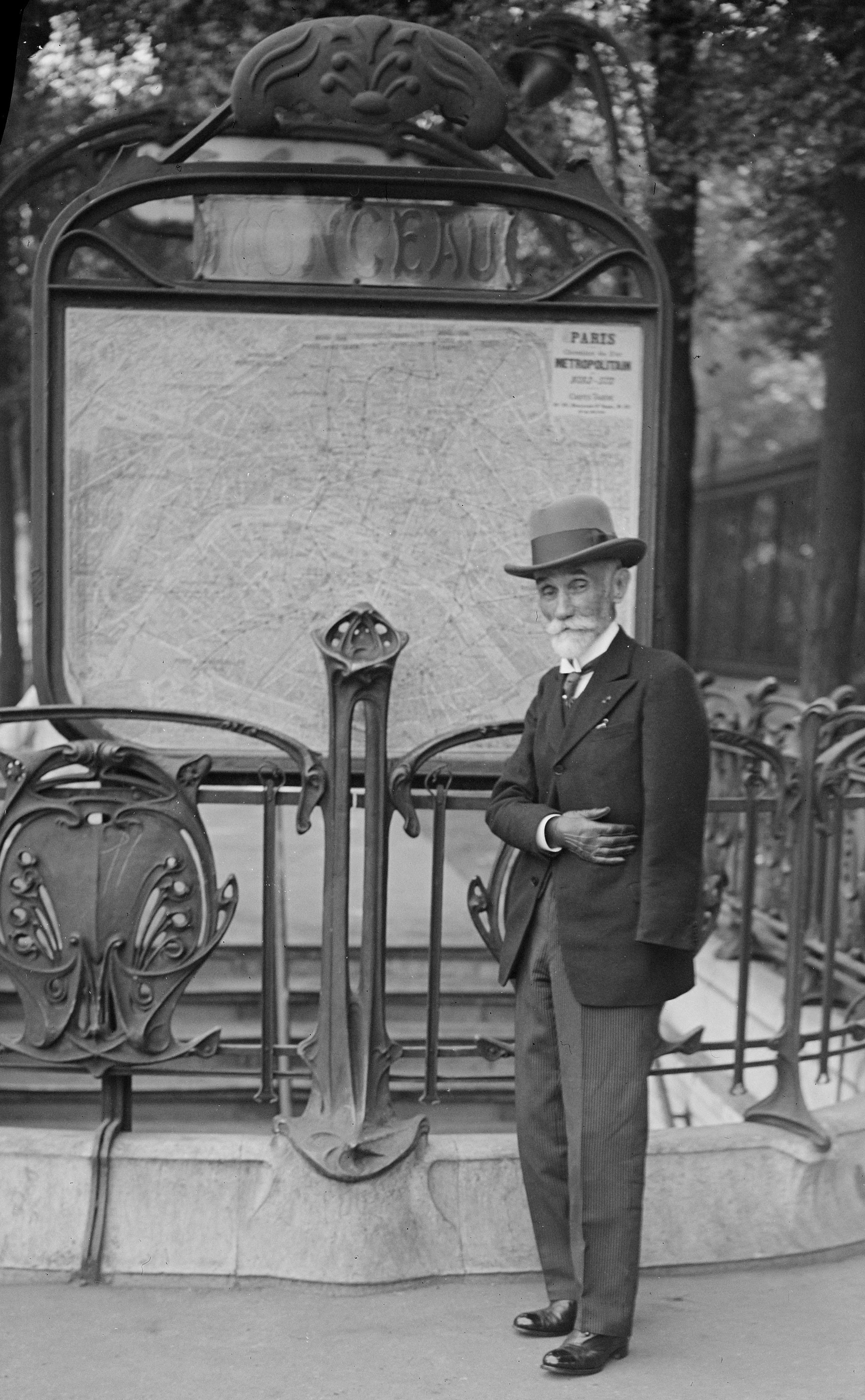 Summary Fulgence Bienvenüe (1852-1936), père du métro parisien, devant l'entrée de la station Monceau. Licensing Source : RATP. This work is in the public domain in its country of origin and other countries and areas where the copyright term is the author's life plus 70 years or fewer. You must also include a United States public domain tag to indicate why this work is in the public domain in the United States. Note that a few countries have copyright terms longer than 70 years: Mexico has 100 years, Jamaica has 95 years, Colombia has 80 years, and Guatemala and Samoa have 75 years. This image may not be in the public domain in these countries, which moreover do not implement the rule of the shorter term. Côte d'Ivoire has a general copyright term of 99 years and Honduras has 75 years, but they do implement the rule of the shorter term. Copyright may extend on works created by French who died for France in World War II (more information), Russians who served in the Eastern Front of World War II (known as the Great Patriotic War in Russia) and posthumously rehabilitated victims of Soviet repressions (more information). This file has been identified as being free of known restrictions under copyright law, including all related and neighboring rights. Catégorie:Métro de Paris